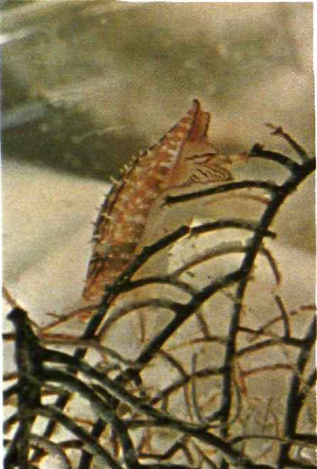 Photo of Phenacovolva lahainaensis (Cate, 1969) (syn.: Phenacovolva carneopicta Rehder & Wilson, 1975); family Ovulidae